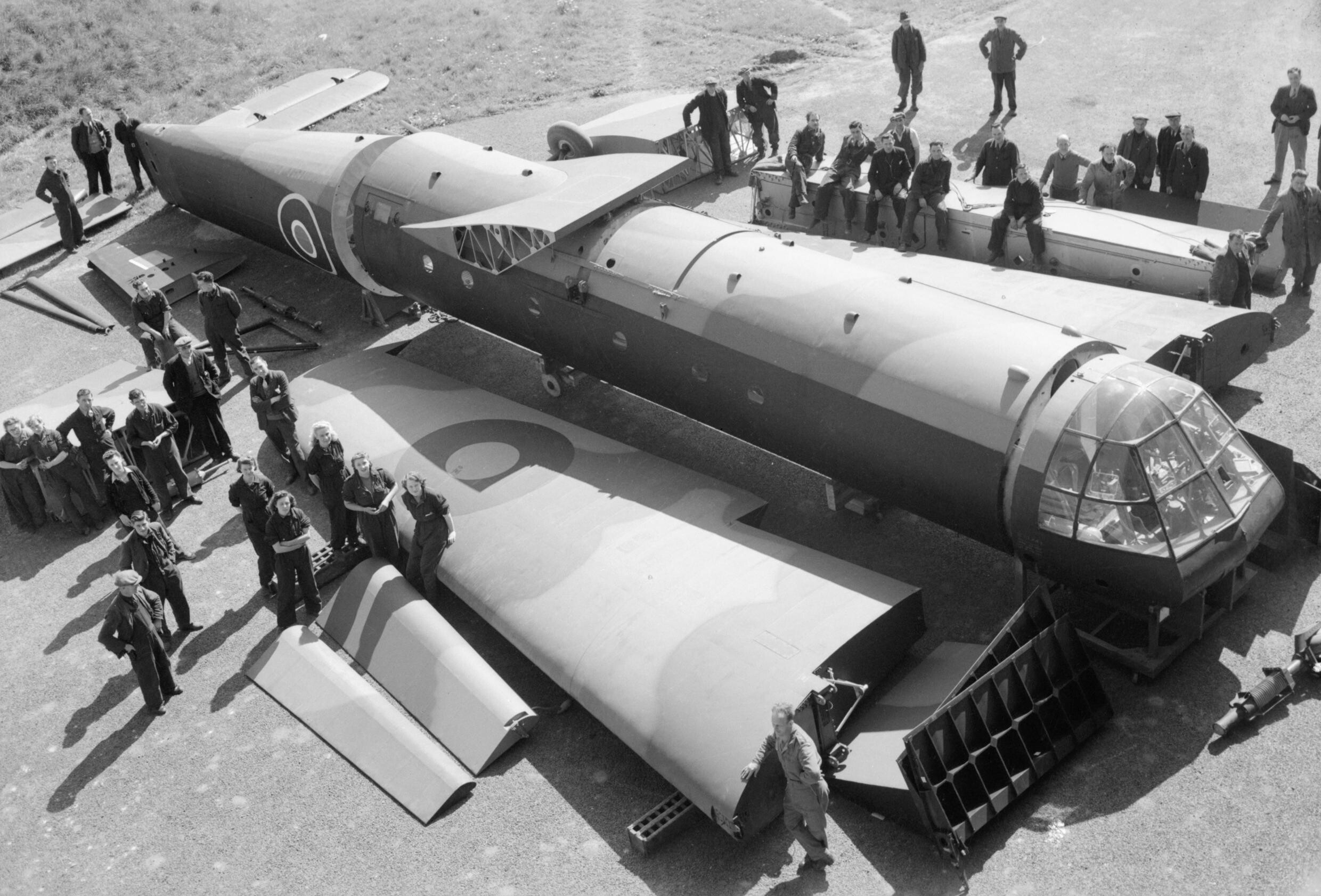 Civilian workers pose with sections of an Airspeed Horsa glider, as received from the manufacturers, before assembling it at No. 6 Maintenance Unit, Brize Norton, Oxfordshire, 26 April 1944. Civilian workers pose with sections of an Airspeed Horsa glider, as received from the manufacturers, before assembling it at No. 6 Maintenance Unit, Brize Norton, Oxfordshire.